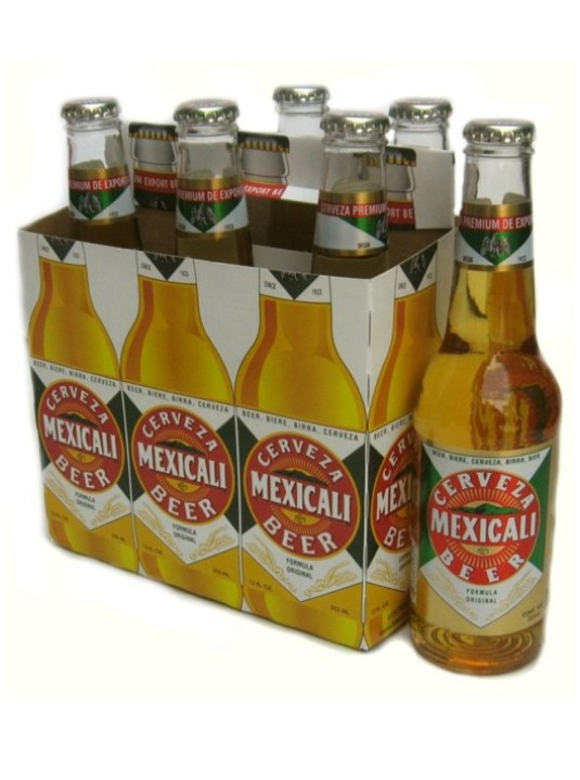 Mexicali sixpack